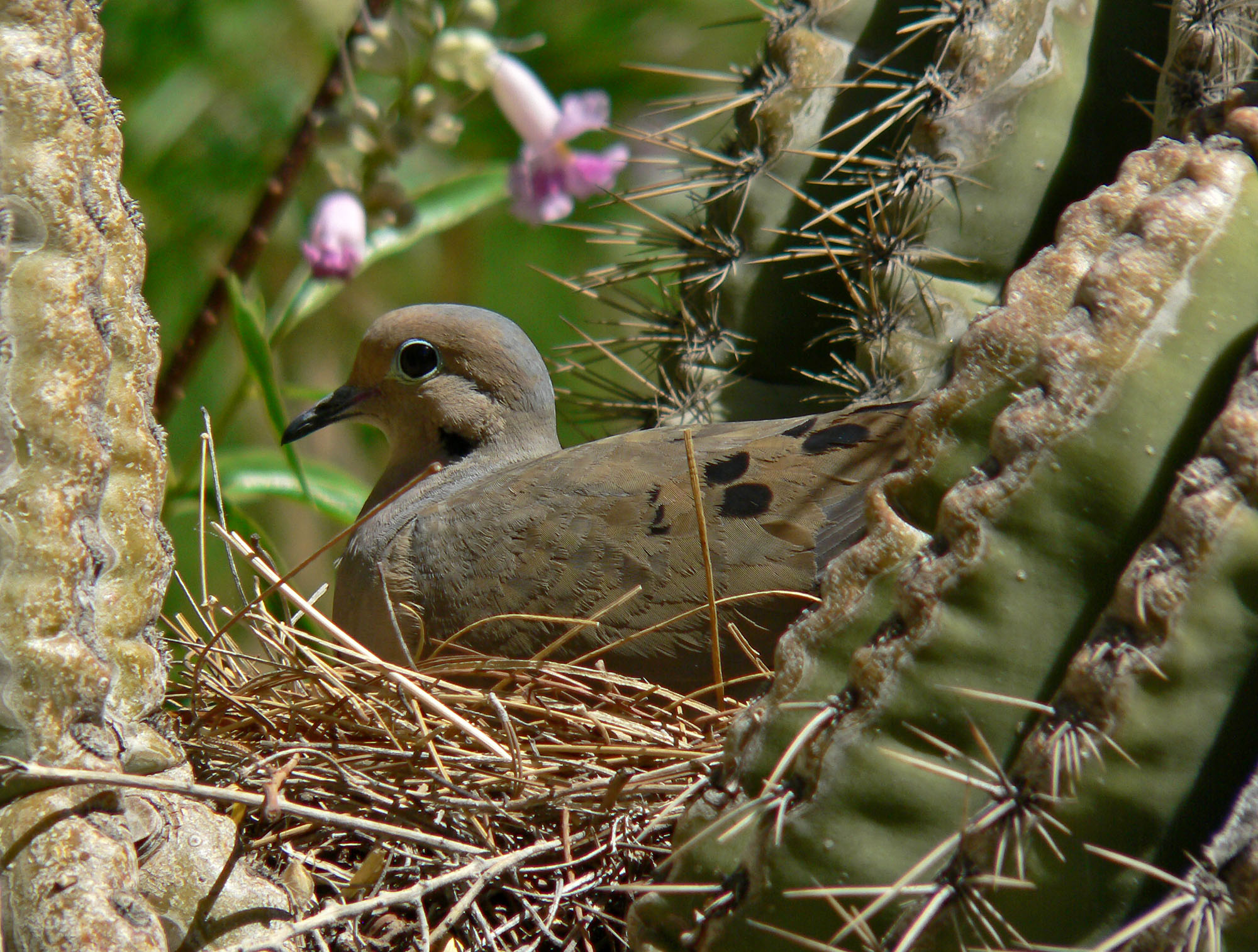 Mourning Dove nesting in Carnegiea gigantea at the Ethel M Botanical Cactus Garden, Las Vegas, Nevada